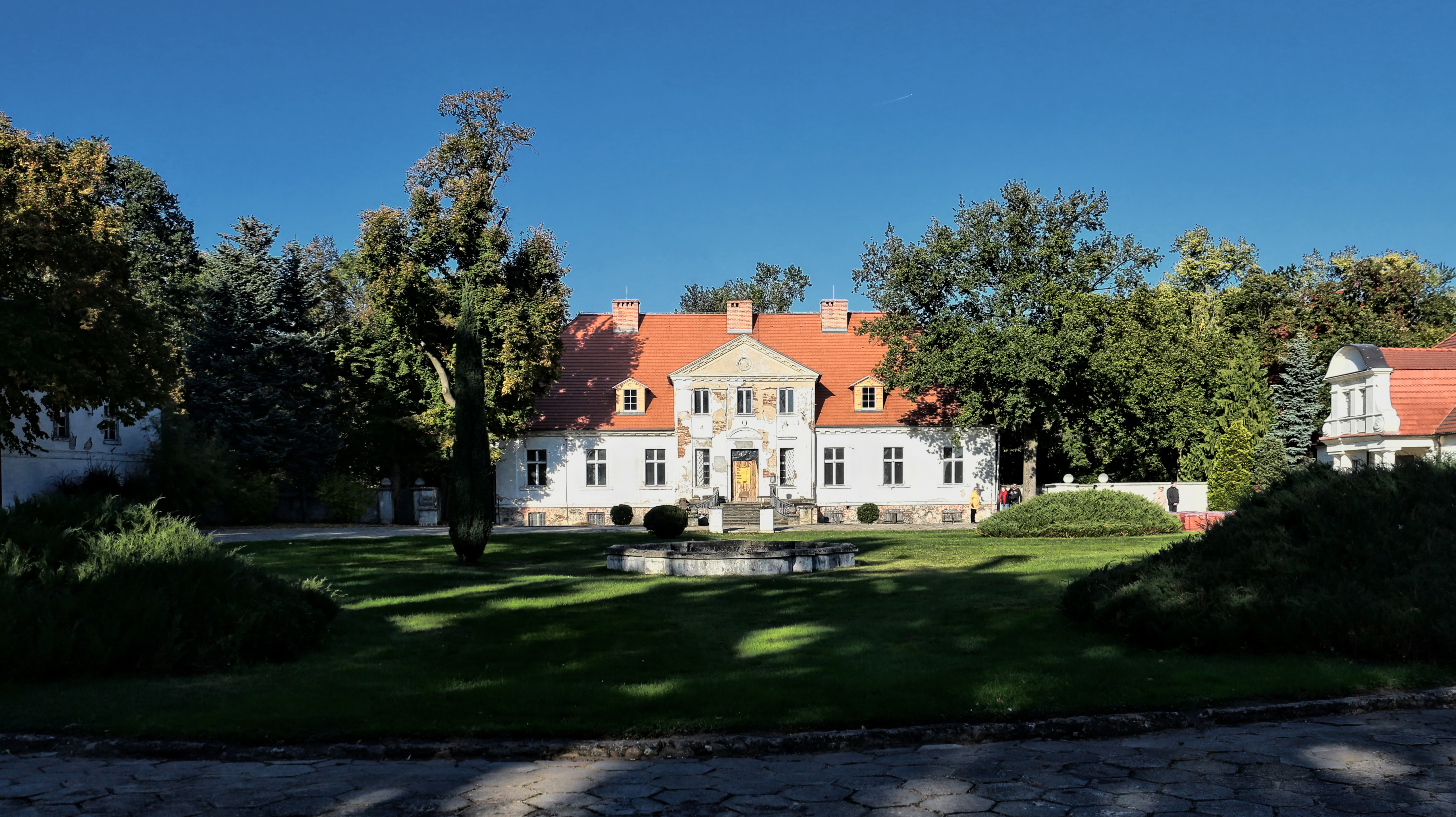 Osowa Sień, manor